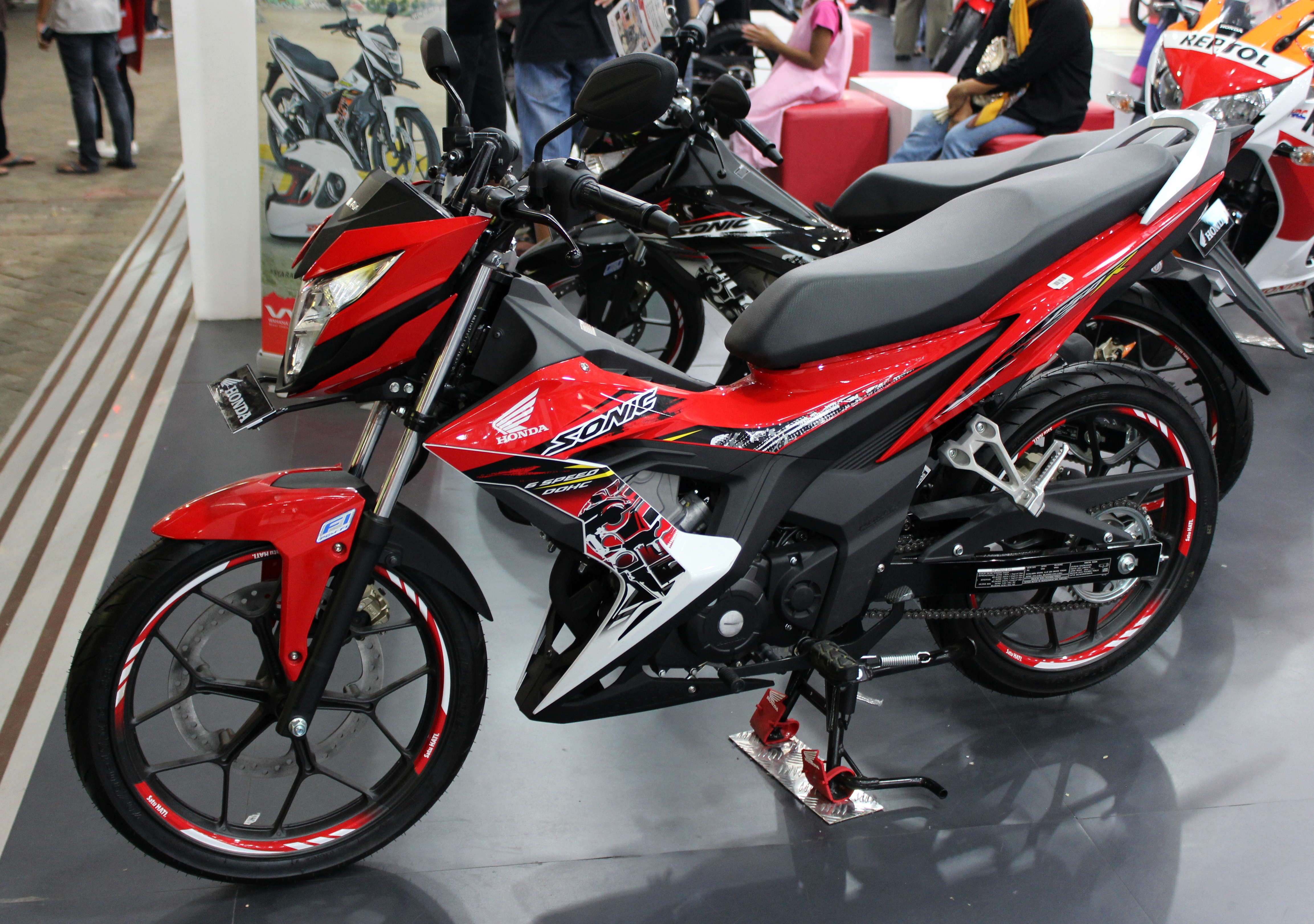 A Honda Sonic 150R photographed in Jakarta Fair 2016, Jakarta, Indonesia on June 21, 2016.